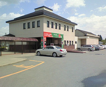 Takayama Uichi Memorial Museum of Art at Michinoeki Shichonohe